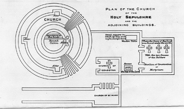 Plan of the Holy Seplecher by Arculf.